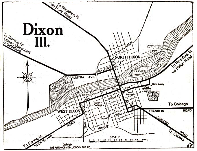 1919 map of Dixon, Illinois from the Automobile Blue Book.